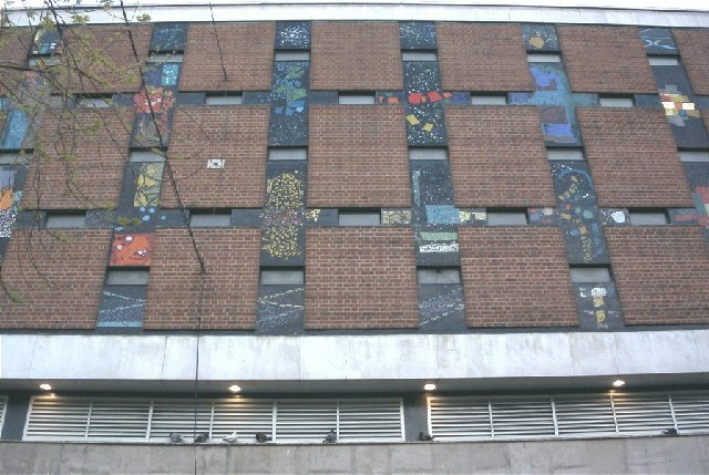 Mosaic detail in Cov Centre. Detail of the 1960's mosaic on the side of Coventry City Library.